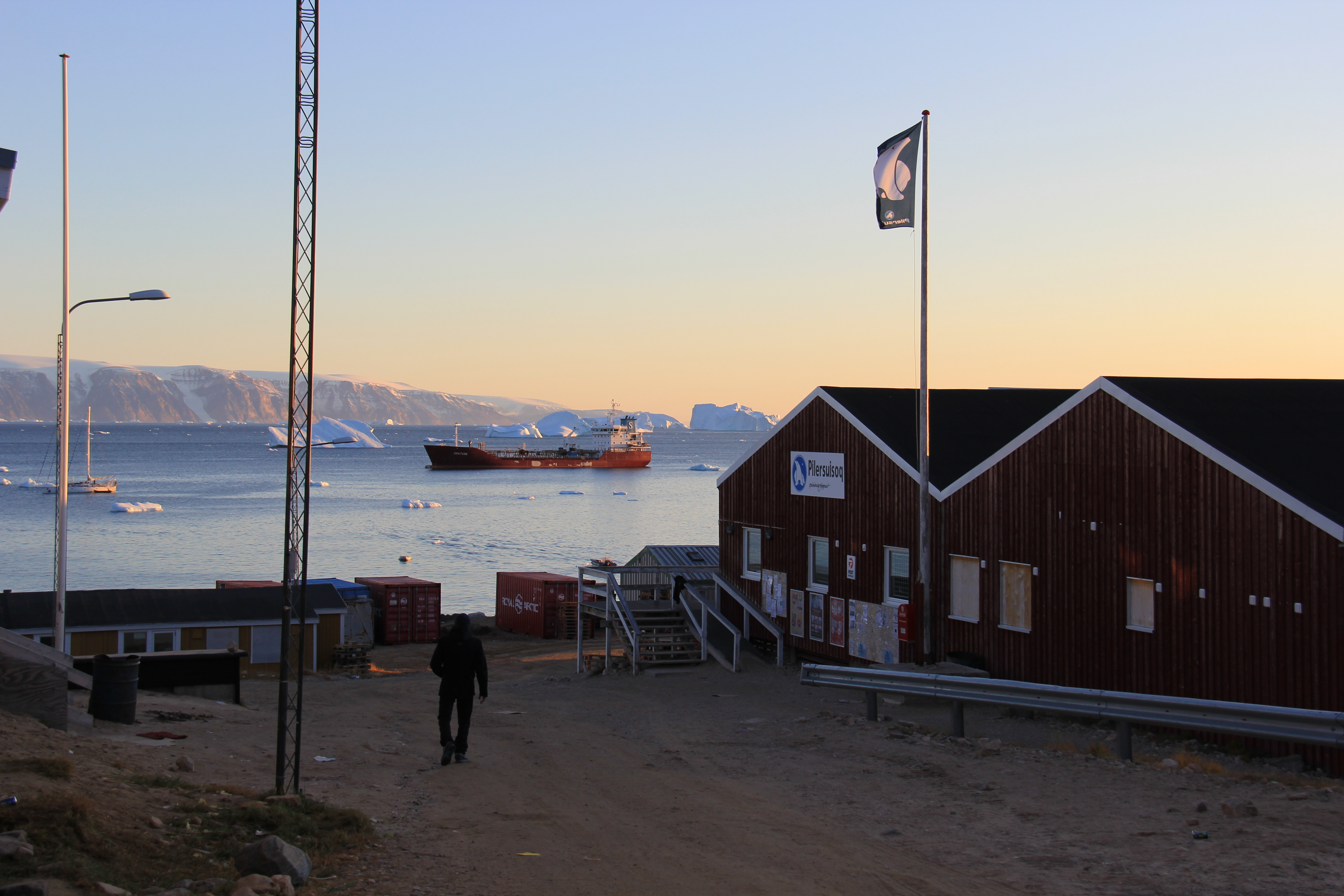 The Pilersuisoq store in Qaanaaq with the last supply ship of the year (Sept. 3.rd) laying in roadstead as there is no harbour.